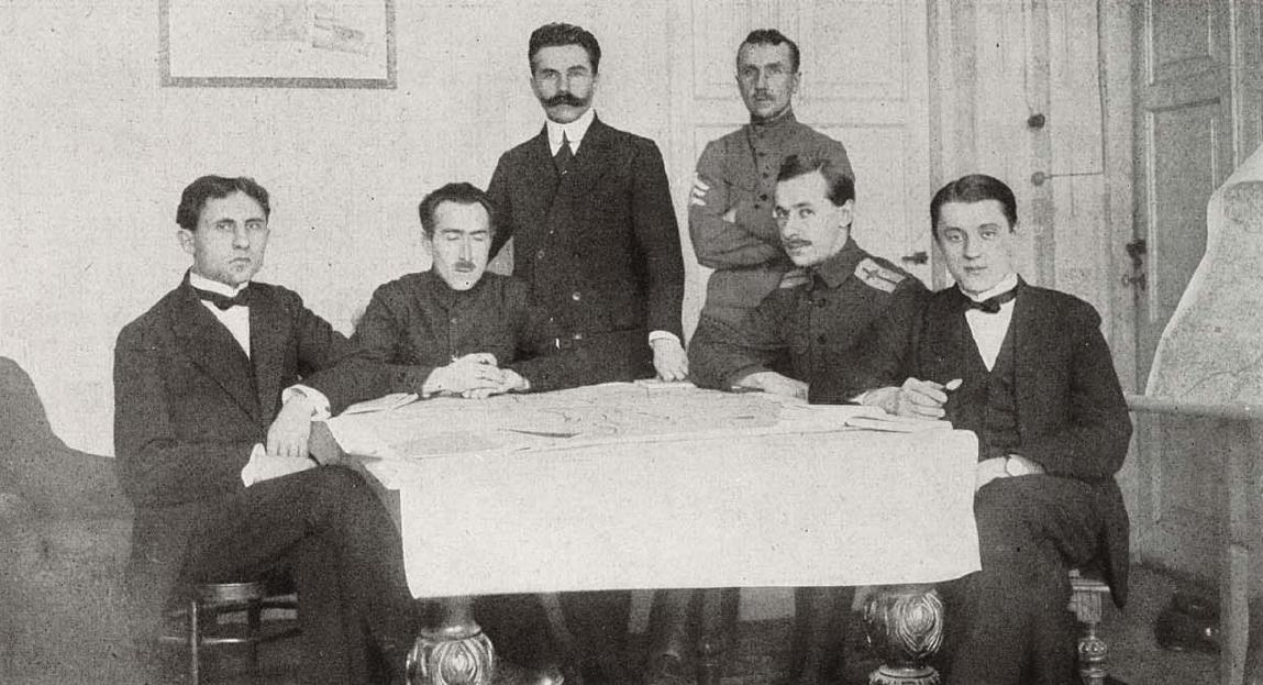 Ukrainian delegation in Brest-Litovsk, left to right: Mykola Liubynsky, Vsevolod Holubovych, Mykola Levytsky, Hryhorii Lysenko, Mykhailo Polosow and Oleksandr Sevruk.